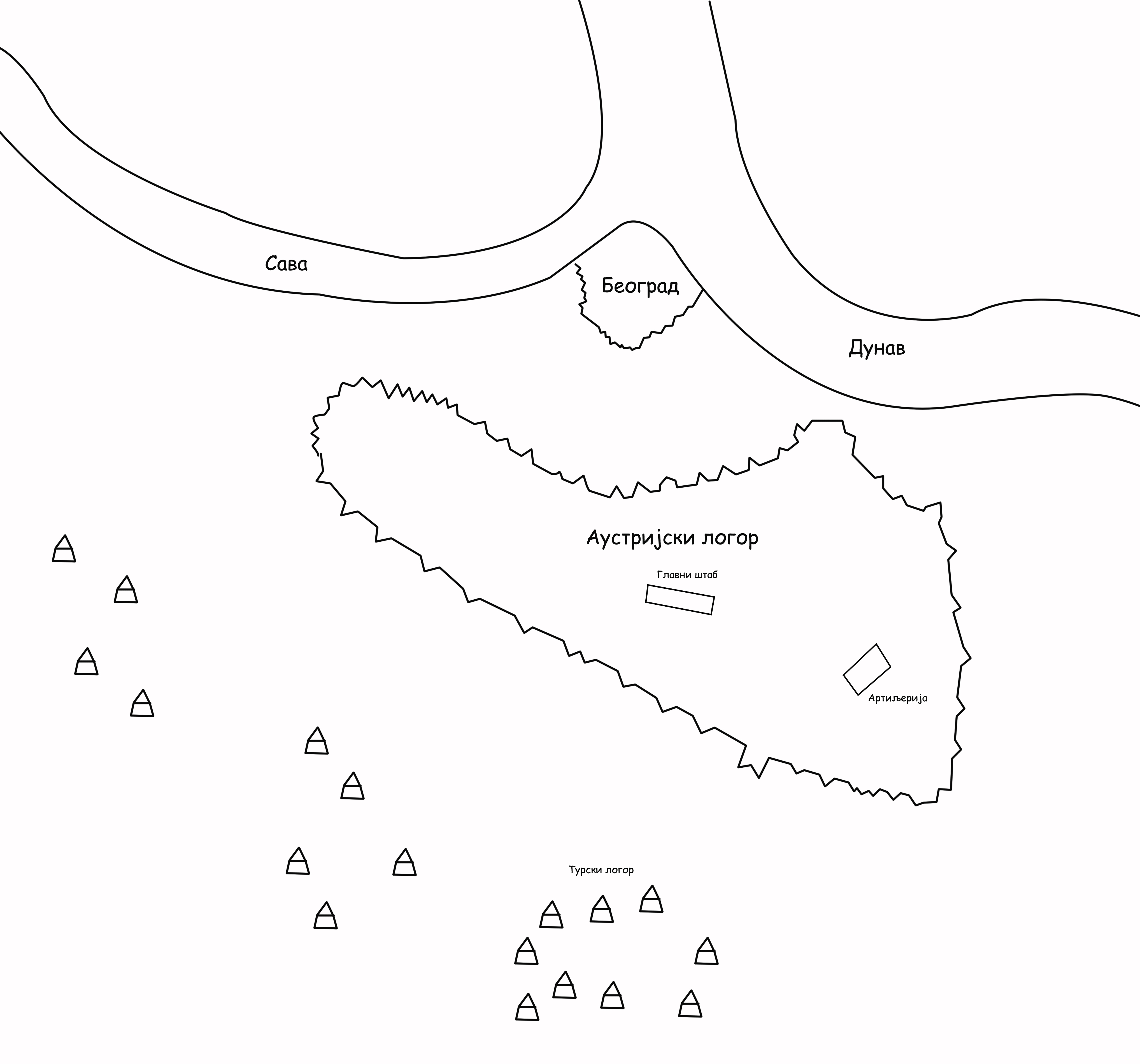 Plan of Siege of Belgrad by Prince Eugen of Savoy in year 1717